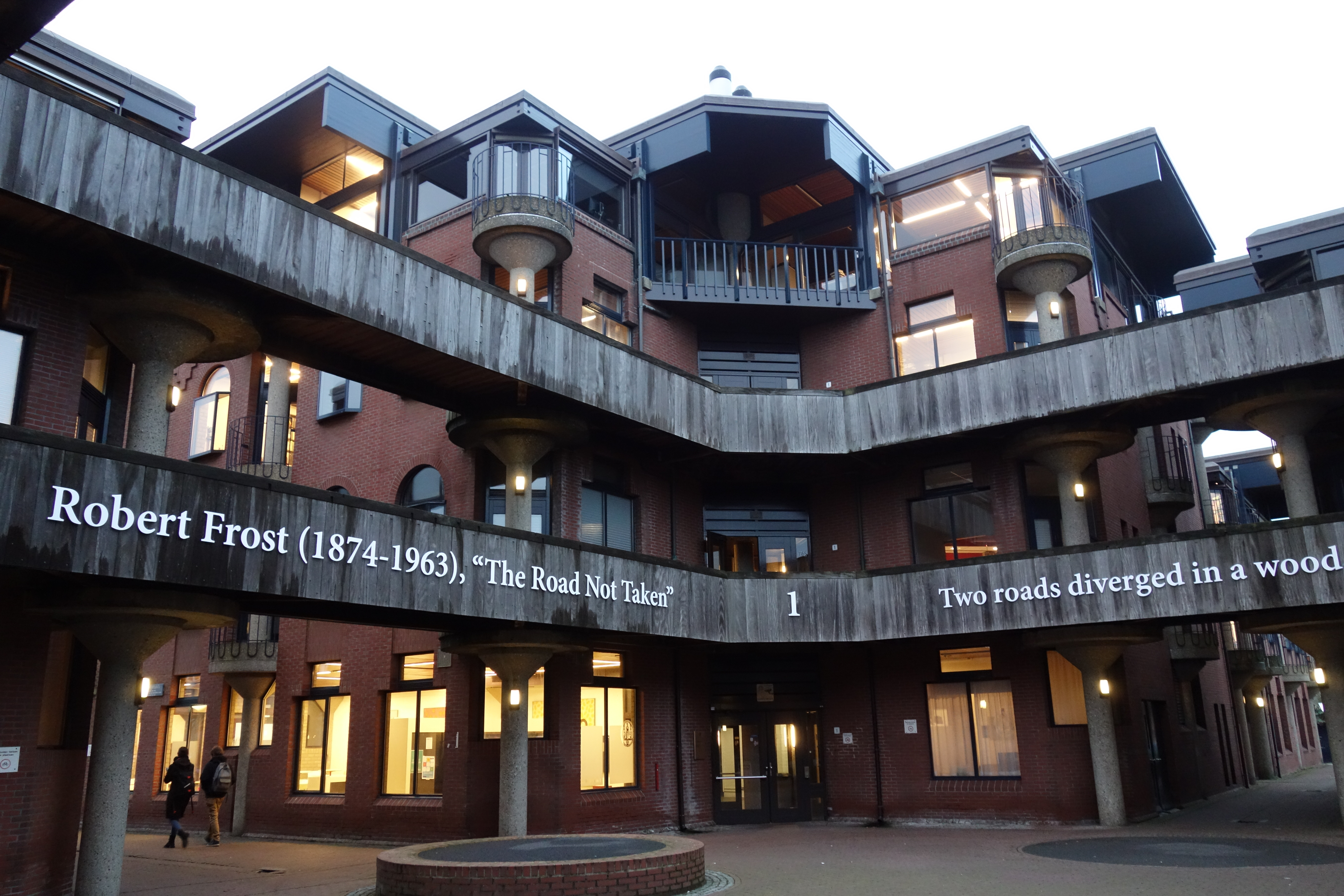 Robert Frost: The Road Not Taken. "Two roads diverged in a wood (...)" (followed by the other two of the three last lines of the poem). Faculty of Humanities, Van Wijkplaats, Leiden University (the Netherlands)